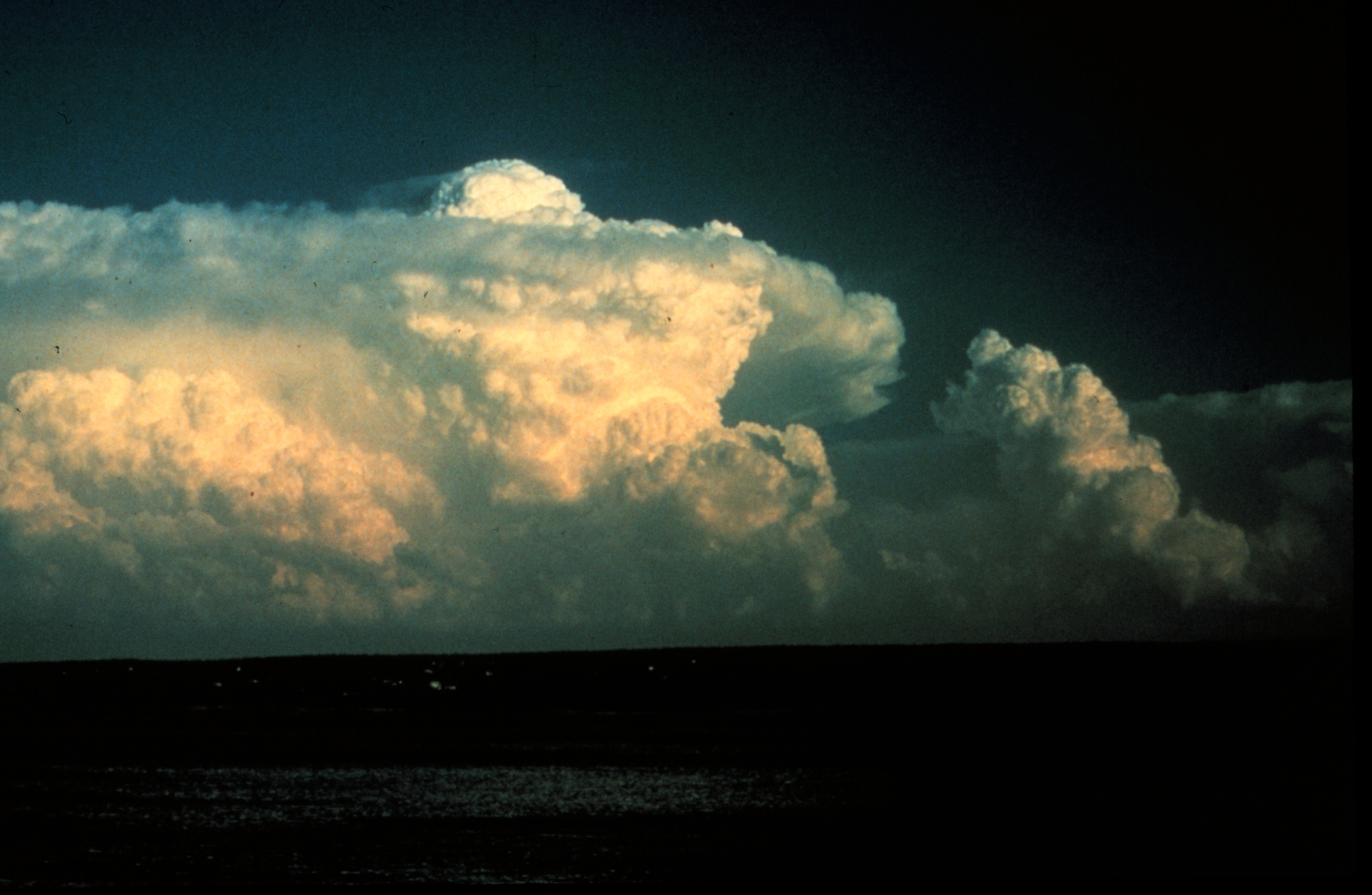 Cumulonimbus